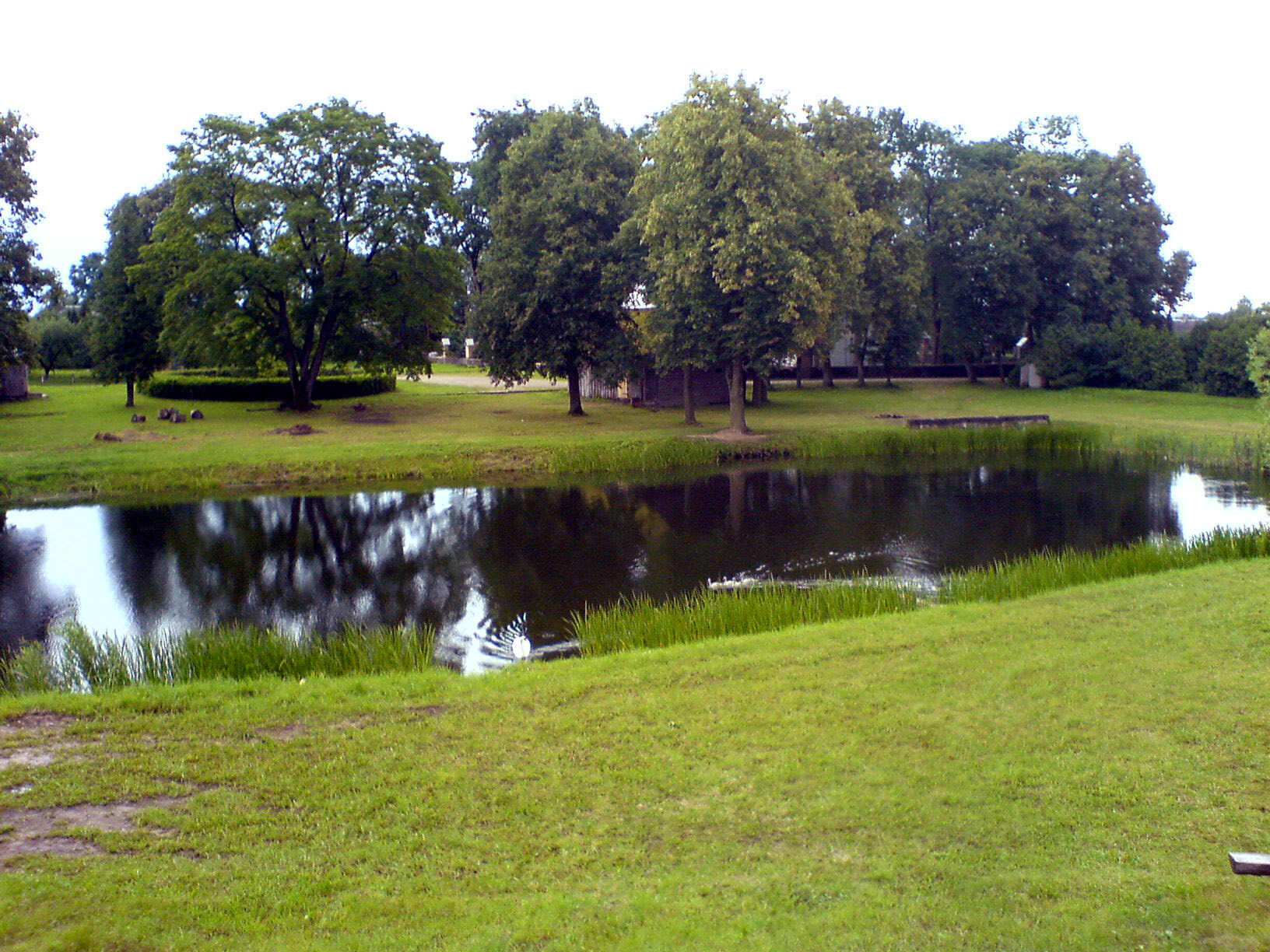 Deltuva, pond near church